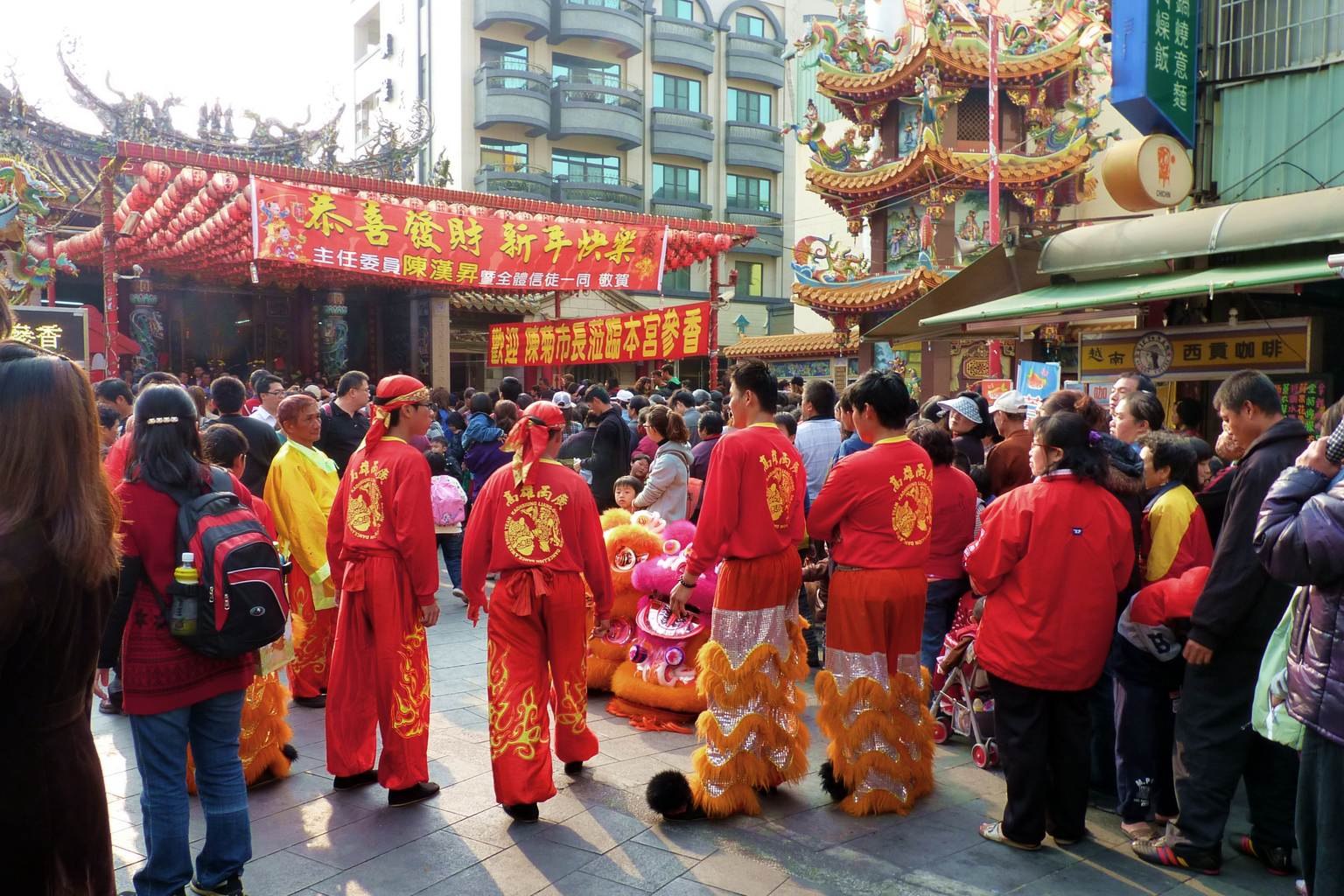 Lion dancers at Cijin Tian Hou Gong in Kaohsiung, Taiwan.